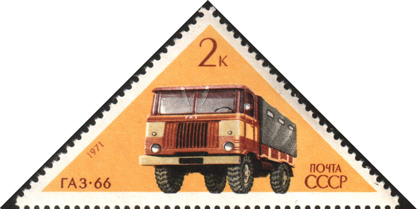 USSR stampː GAZ-66 Truck. Seriesː Soviet Motor Vehicles